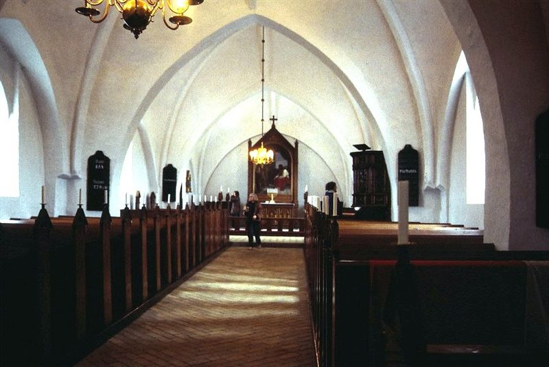 Sandholts Lyndelse Kirke (church) from apr. 1100.